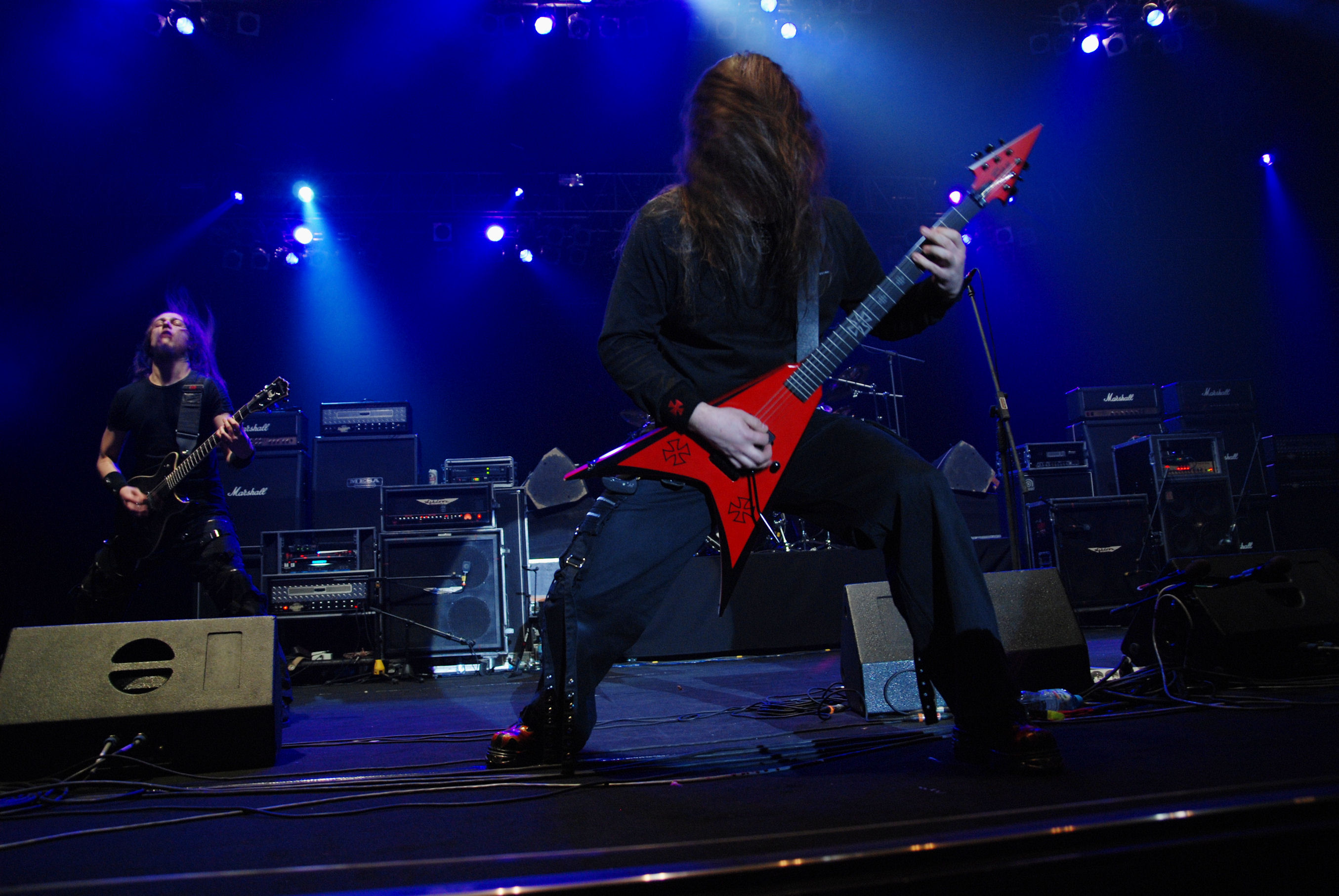 Vader during Metalmania 2008 festival